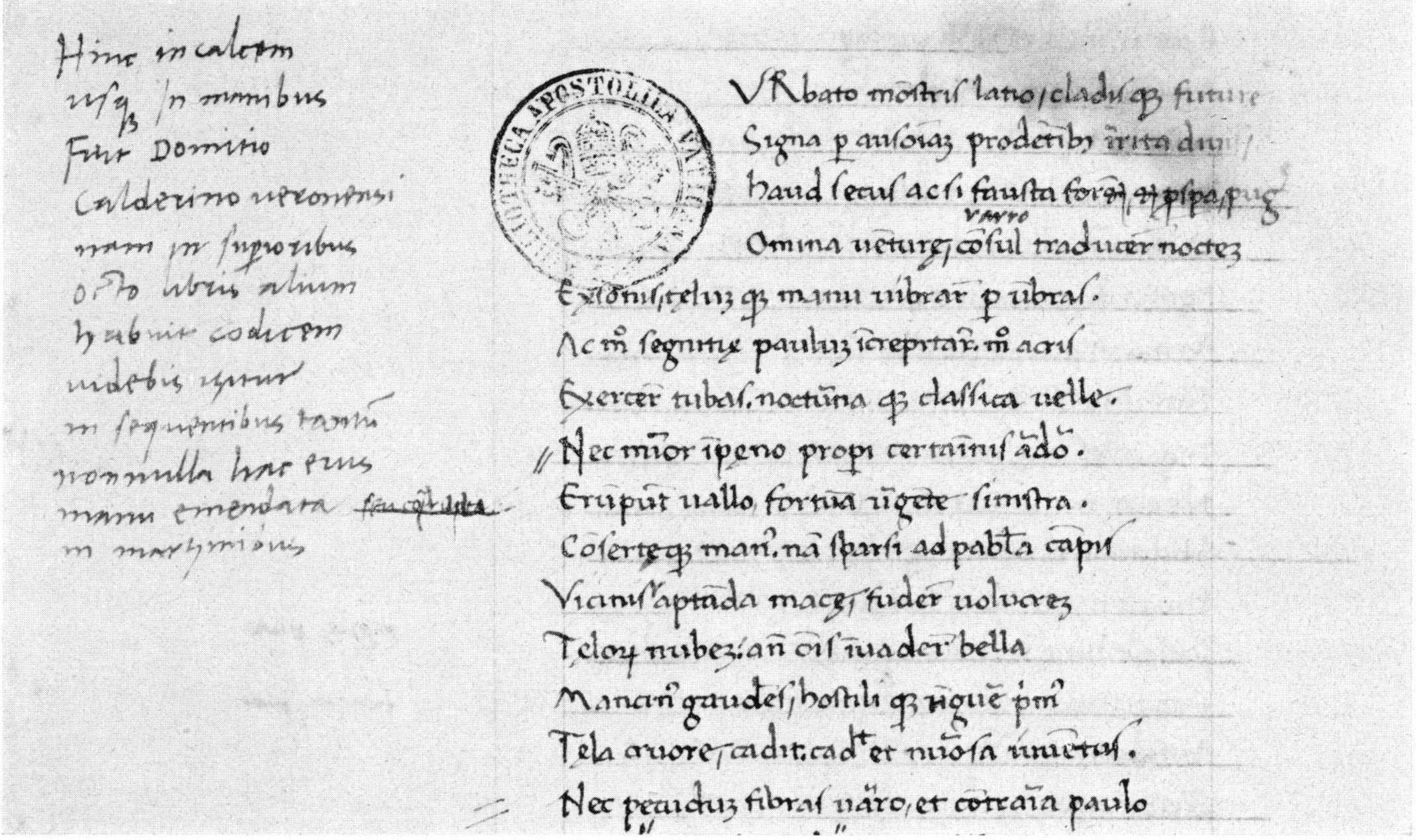 Silius Italicus, Punica 9,1-15, with marginal notes by Domizio Calderini. Biblioteca Apostolica Vaticana, Ottob. lat. 1258, fol. 102v.